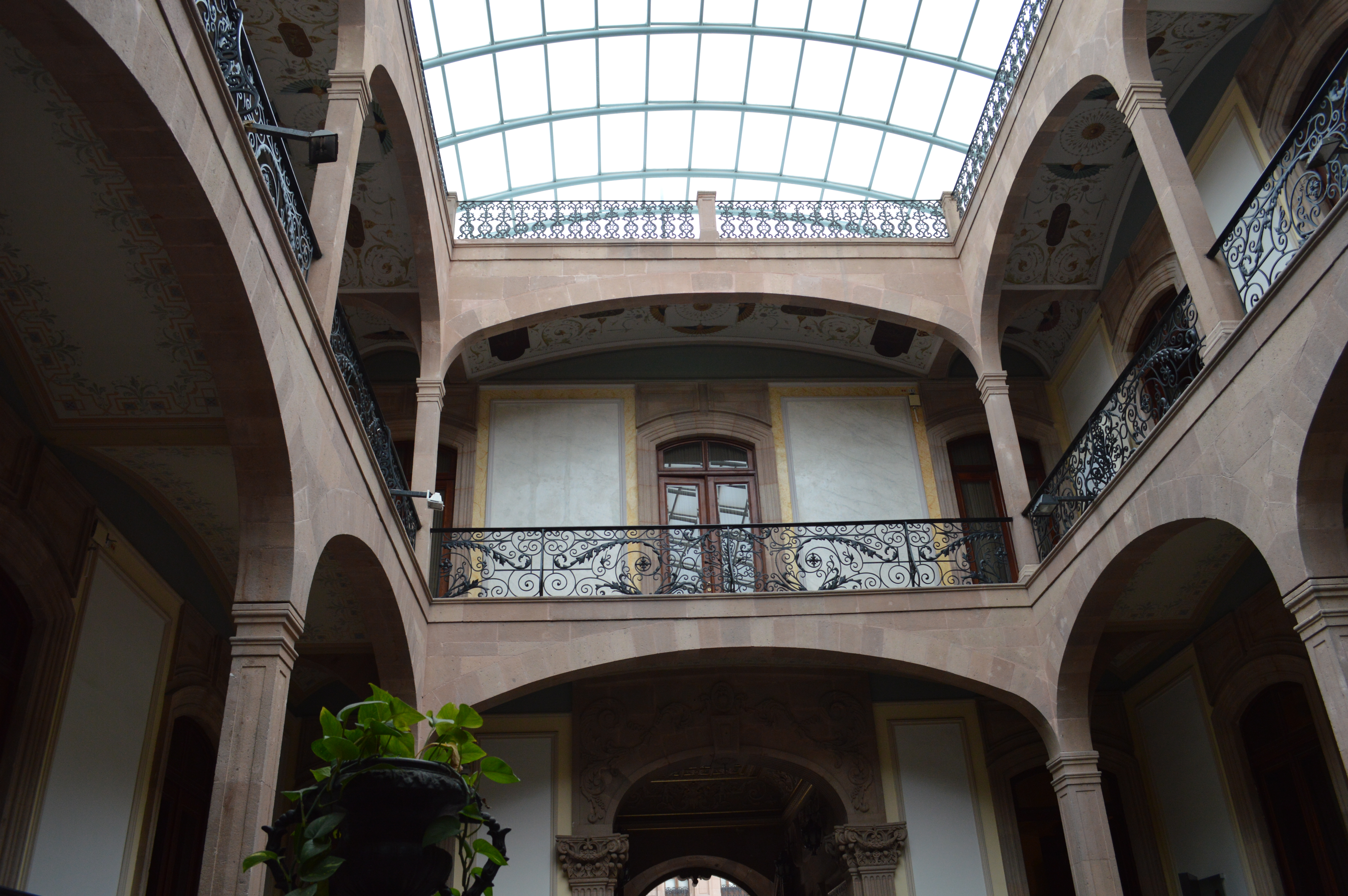 Interior of the Museo Nacional de la Mascara in San Luis Potosi, Mexico